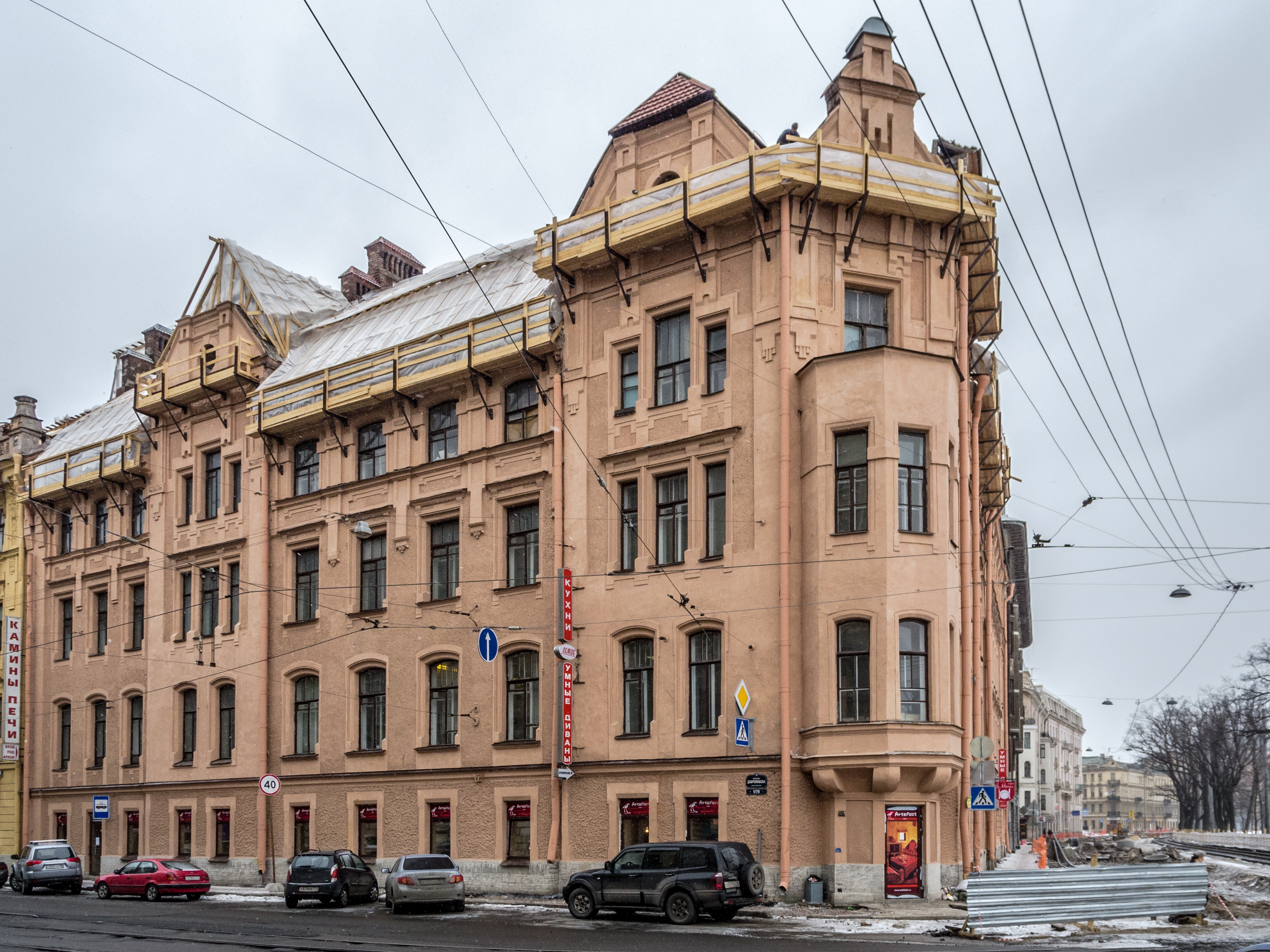 1, Dobroljubova avenue, Saint Petersburg